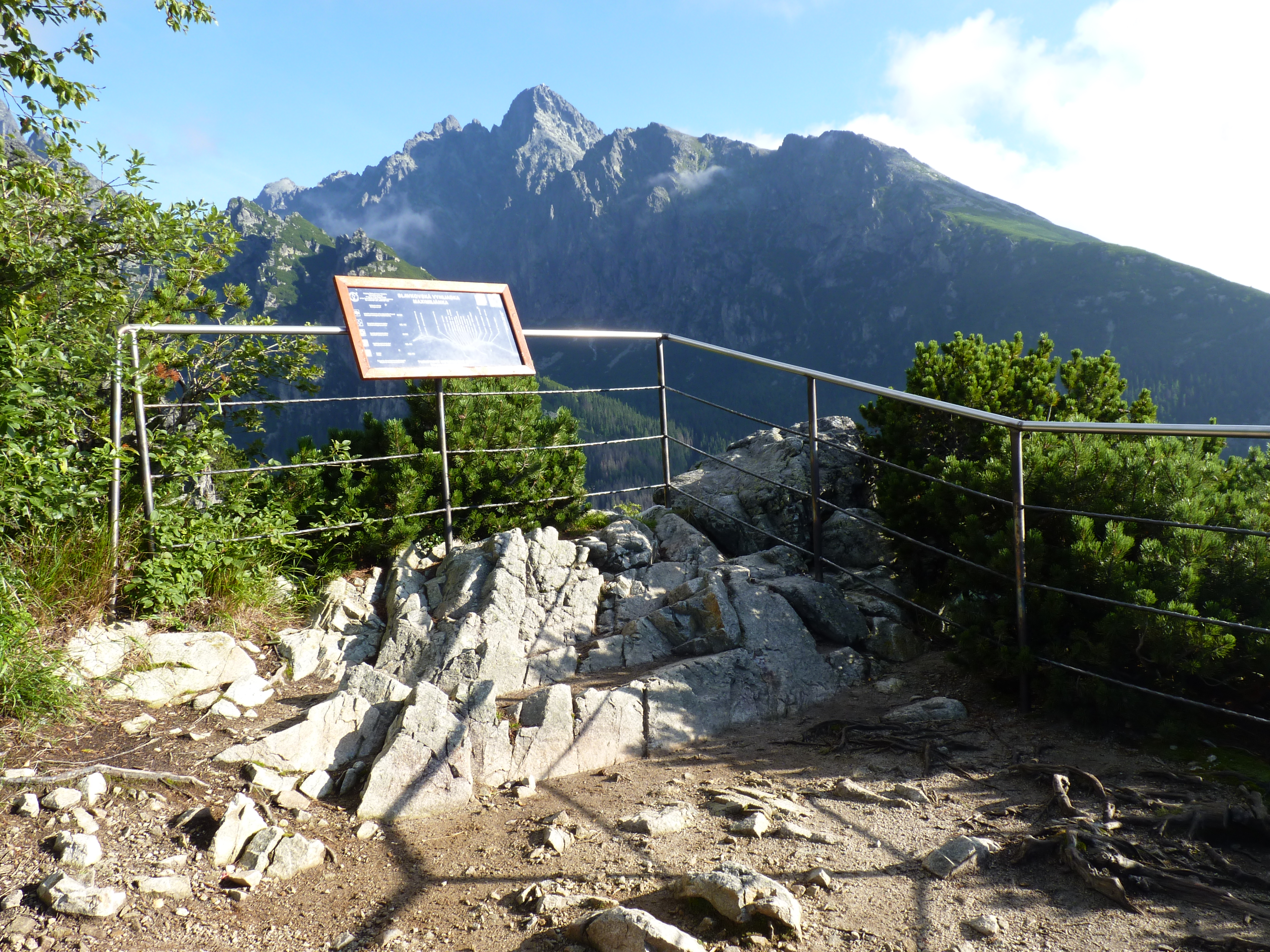 Slavkovská Valley, Tatra Mountains, Slovakia